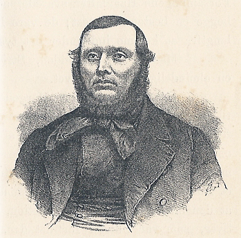 Hans Andersen Krüger. 1816-1881.